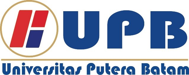 It is the logo of Universitas Putera Batam, a university in Batam, Kepulauan Riau, Indonesia